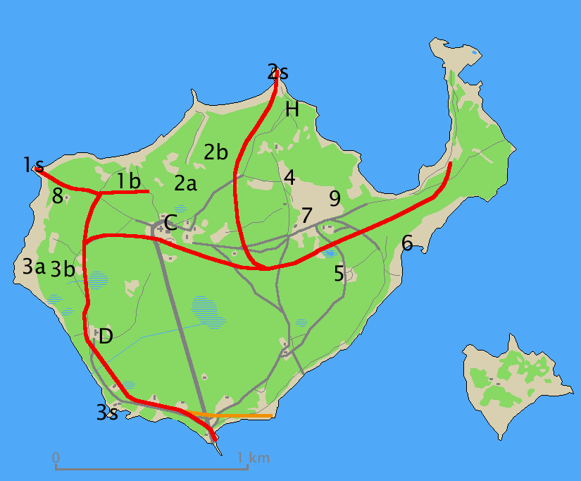 Aegna military buildings